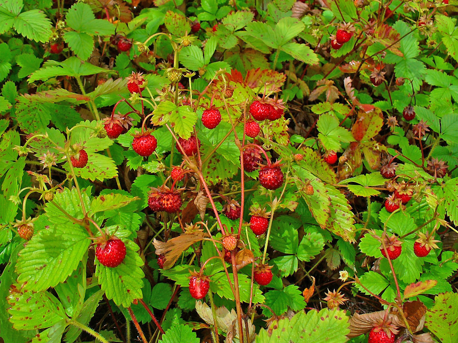 Fragaria vesca, Rosaceae, Woodland Strawberry, Fraises des Bois, Wild Strawberry, European Strawberry, fruits; Botanical Garden KIT, Karlsruhe, Germany. The fresh, ripe fruits are used in homeopathy as remedy: Fragaria vesca (Frag.)